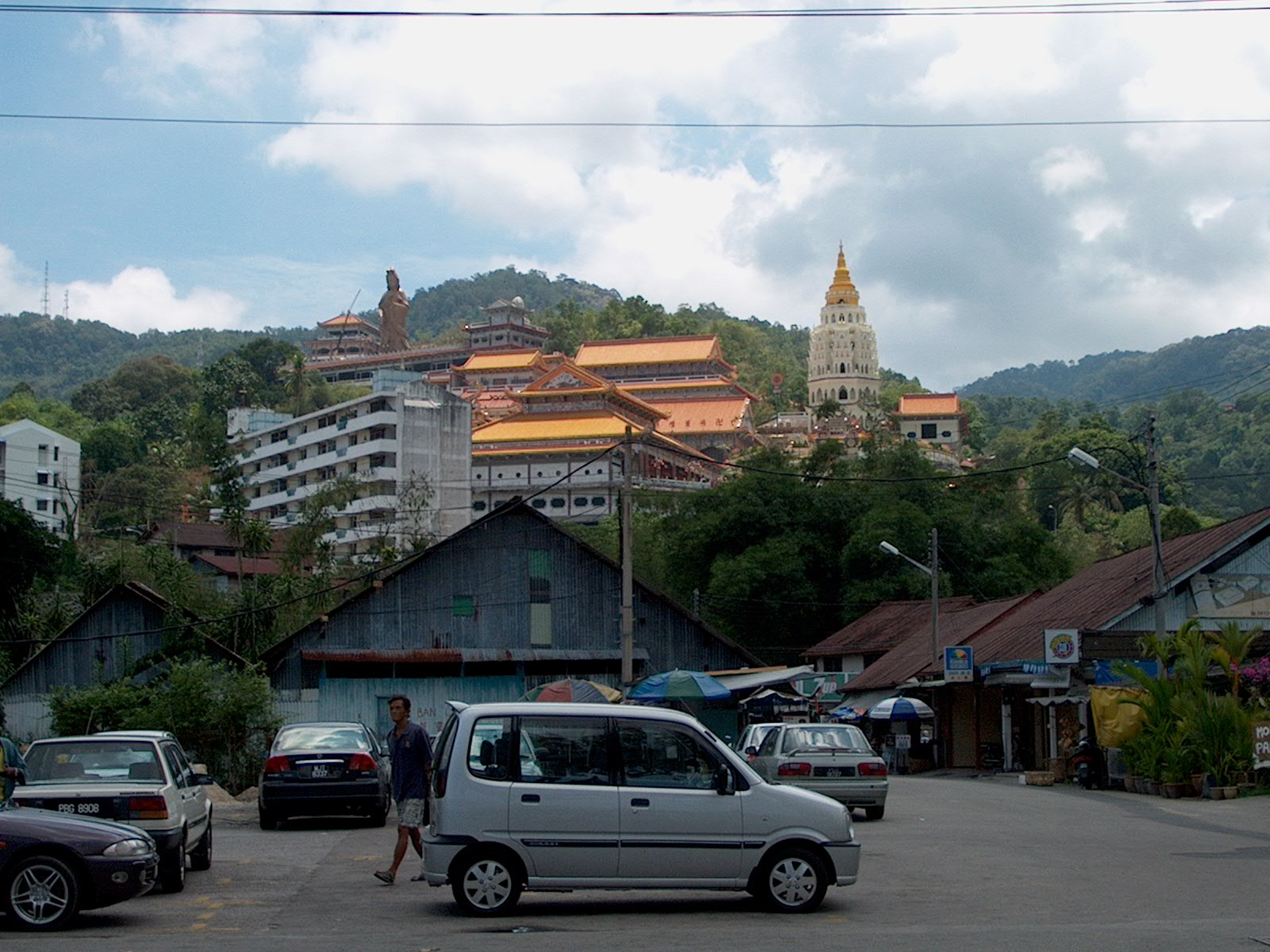 Kek Lok Si Temple, Penang Malaysia from nearby neighbourhood